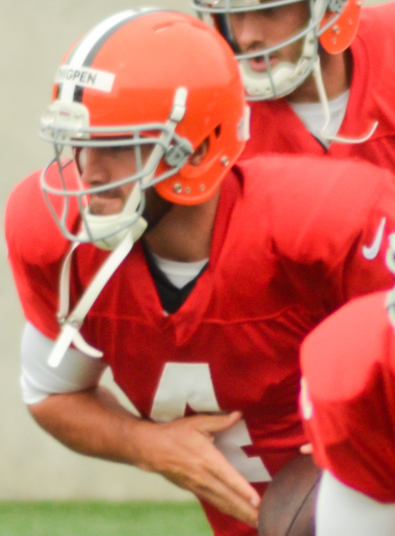 Cleveland Browns Quarterbacks